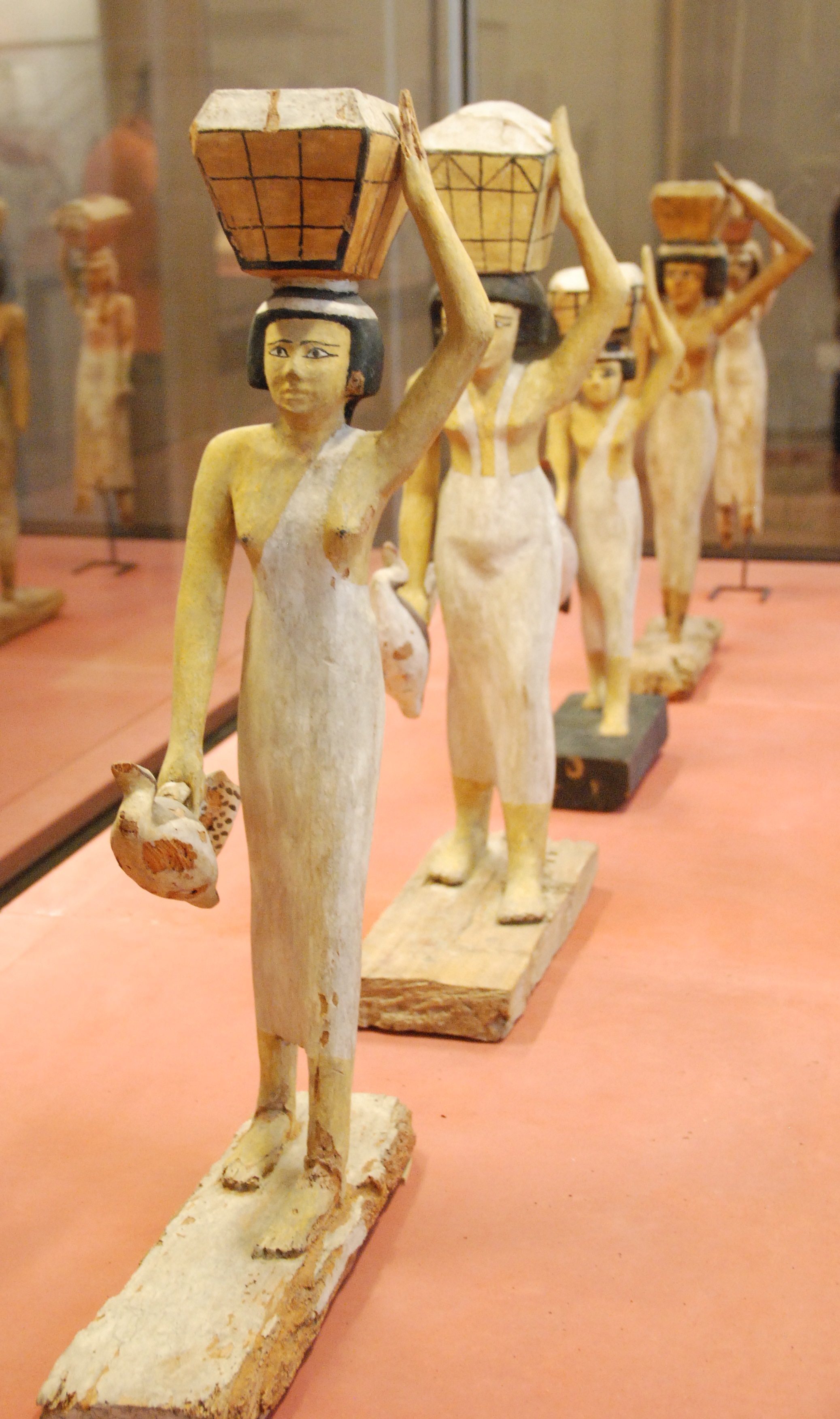 Statuettes of offering bearers, painted wood of tamarix, cemetery of Asyut, about 1950 BC, 12th dynasty of Egypt, Middle Kingdom.